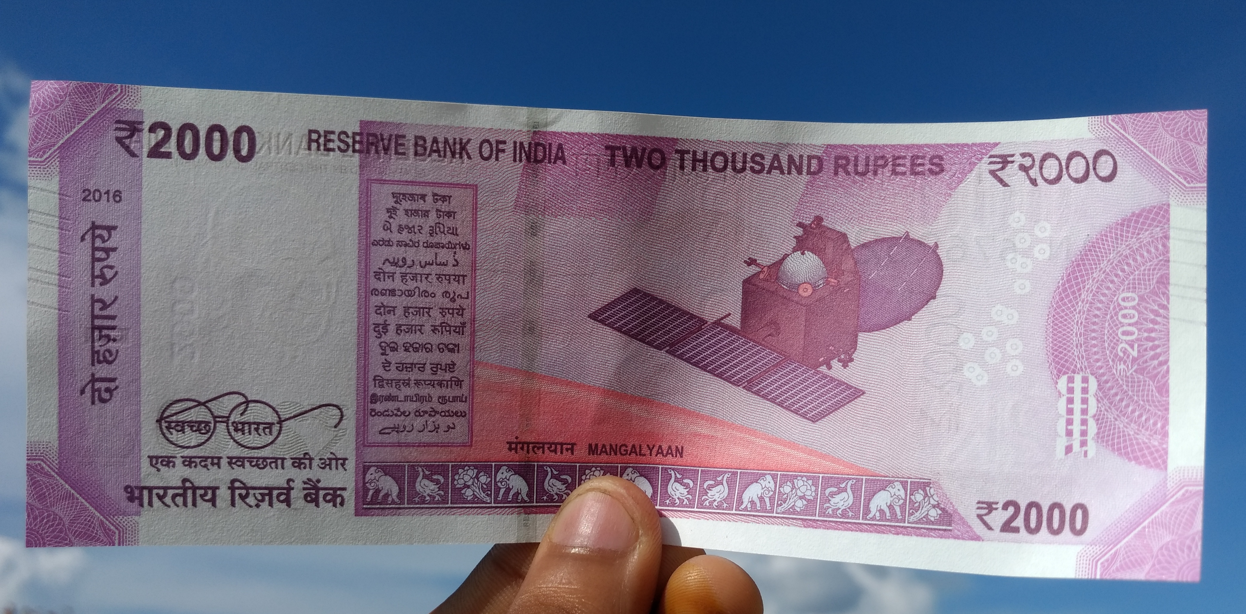 A 2000 rupee note